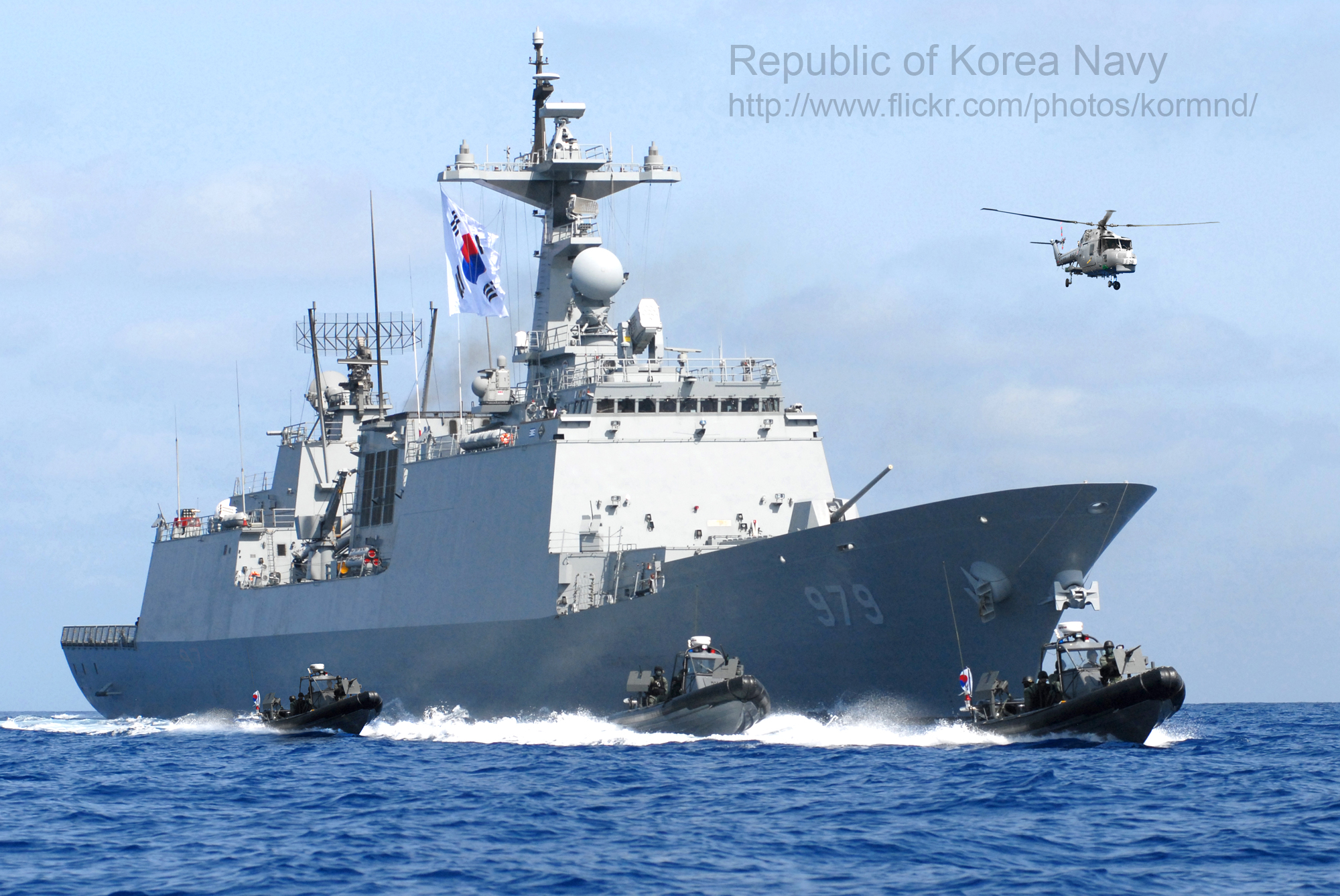 청해부대 Rep. of Korea Navy Activity of CheongHae Unit